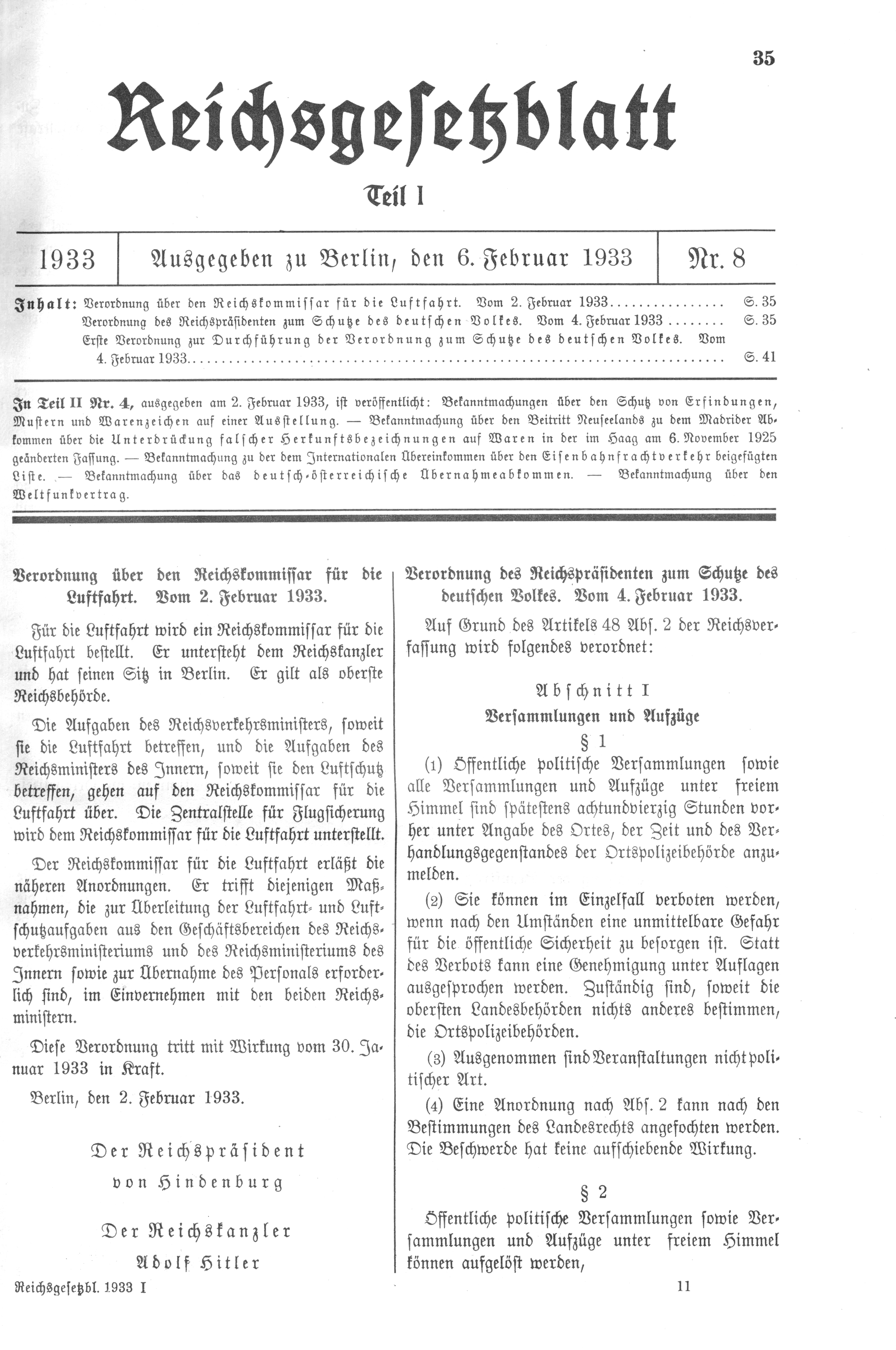 Scan from the Imperial Law Gazette of Germany, 1933, part 1